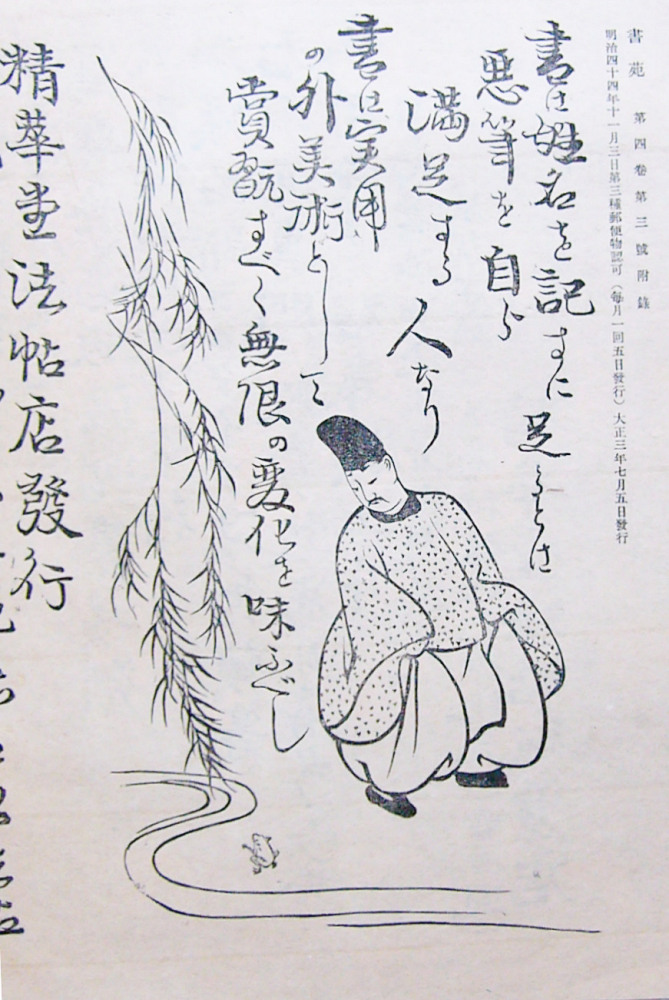 Drawing of an anecdote of [Ono no Michikaze] from an advertisement of a stationary, Tokyo, Japan